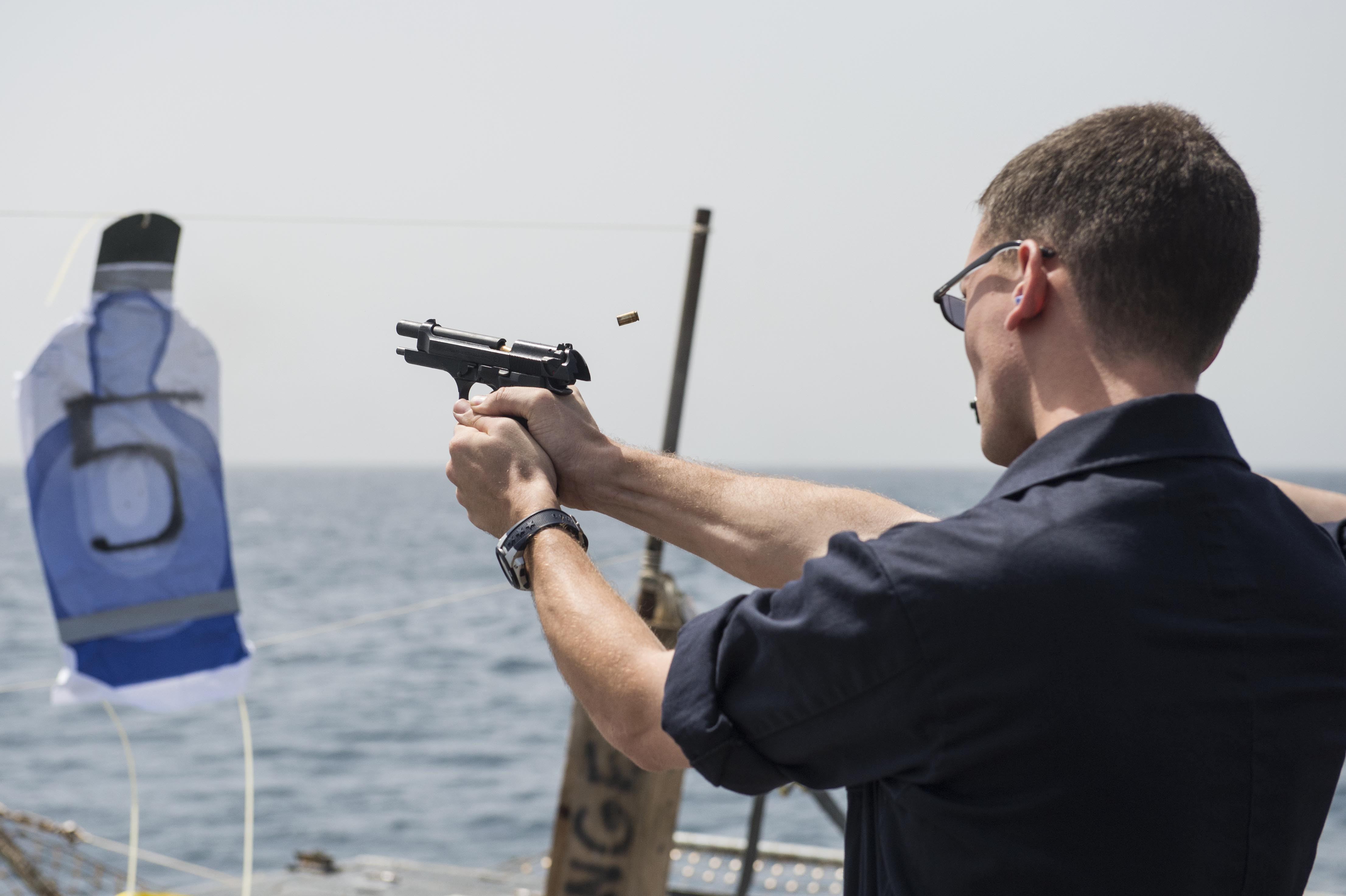 150817-N-VC236-071 ARABIAN SEA - Ensign Bradley Weaveris, from Charlotte, N.C., fires a 9mm pistol during a small arms qualification shoot aboard the guided-missile destroyer USS Farragut. Farragut is deployed to the U.S. 5th Fleet area of operations as part of Theodore Roosevelt Carrier Strike Group supporting Operation Inherent Resolve, strike operations in Iraq and Syria as directed, maritime security operations and theater security cooperation efforts in the region.